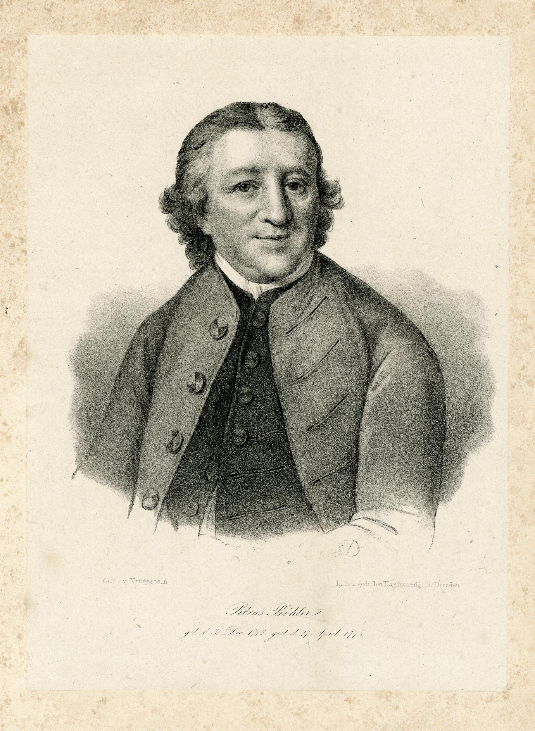 Portrait of Peter Boehler, half-lenght to left, head turned to right, looking to the viewer, wearing jacket and waistcoat, after a painting by Krügestein Lithograph on chine collé